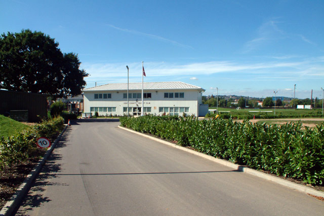 Kent County Cricket Ground, Beckenham BR3. In Worsley Bridge Road. The former Lloyds Bank sports ground was sold partially for development of flats, the remainder being taken over by Kent County Cricket Club.